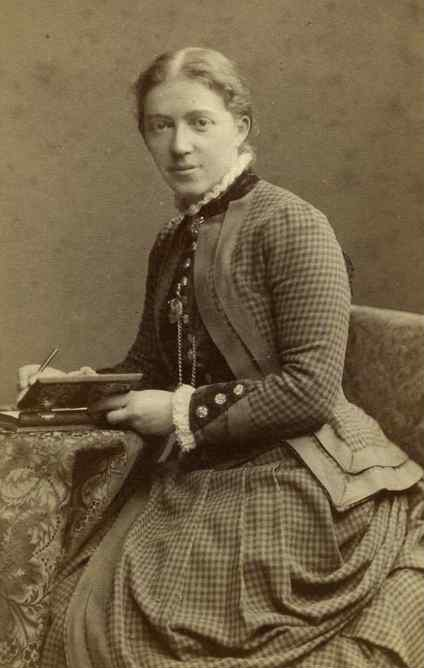 Gertrude Guillaume-Schack (9 November 1845 – 20 May 1903), women's rights activist. From Morgenrood (1896). Socialist weekly for Harlingen and surroundings.